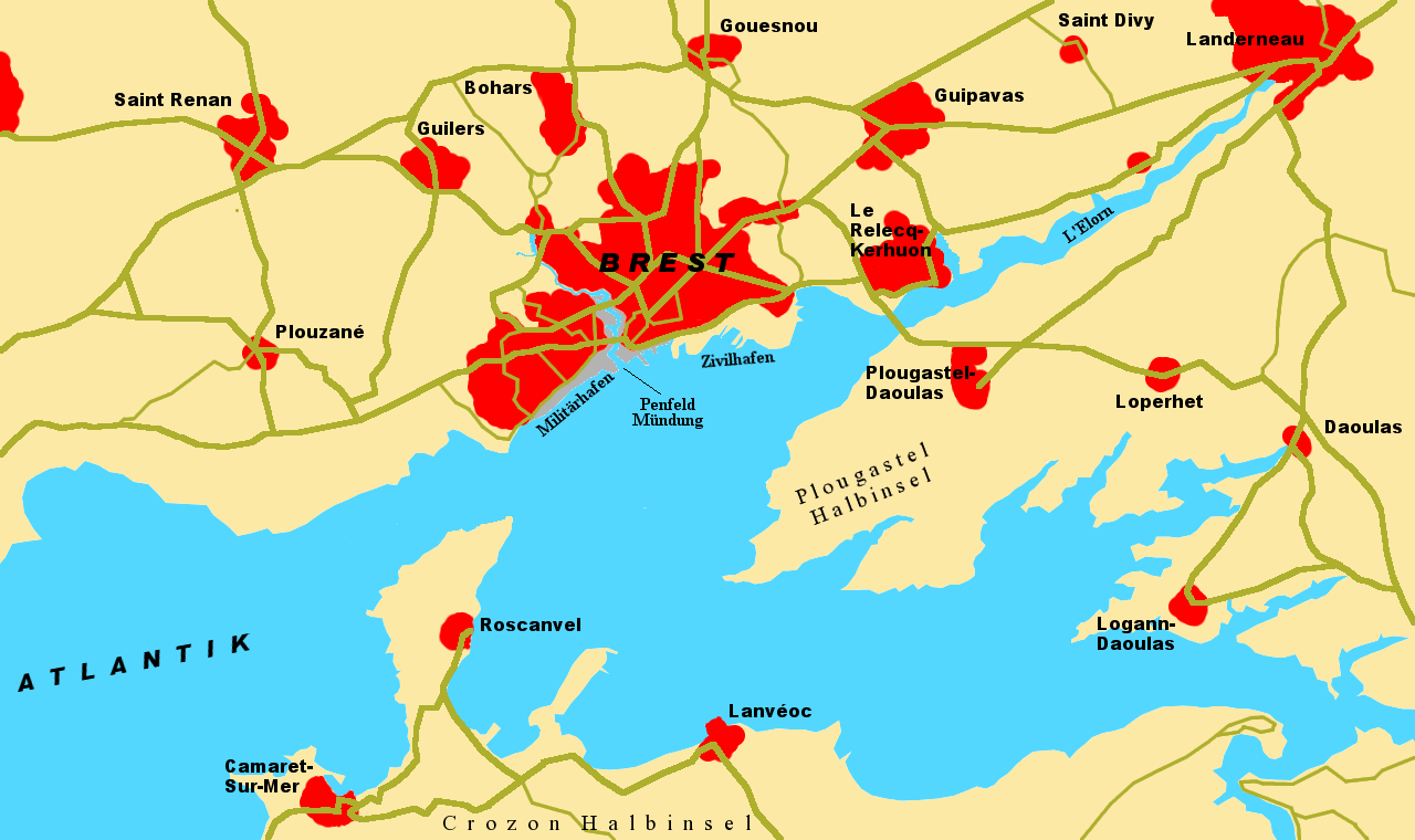 Description: Vicinity of Brest Source: self-made by User:W.wolny Note: For a blanc map ask User:W.wolny